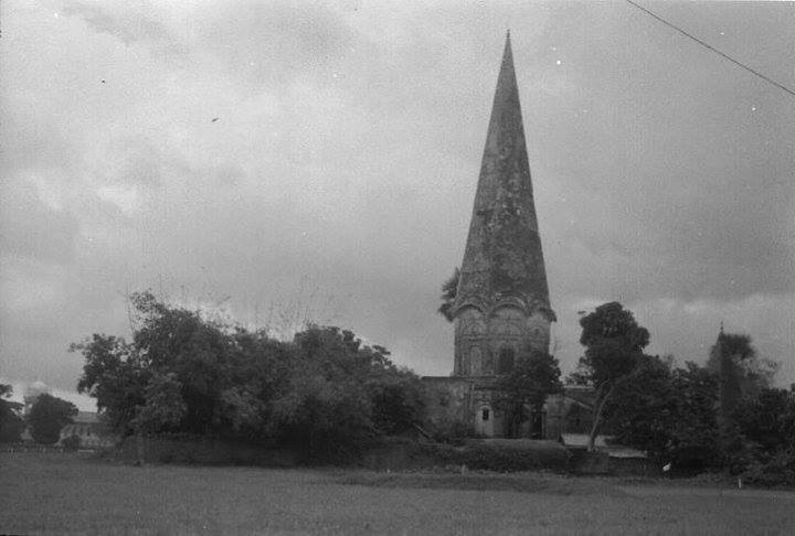 Ramna Kalibari. Dhaka racecourse/ Suhrawardy Udyan. Dhaka (1967)